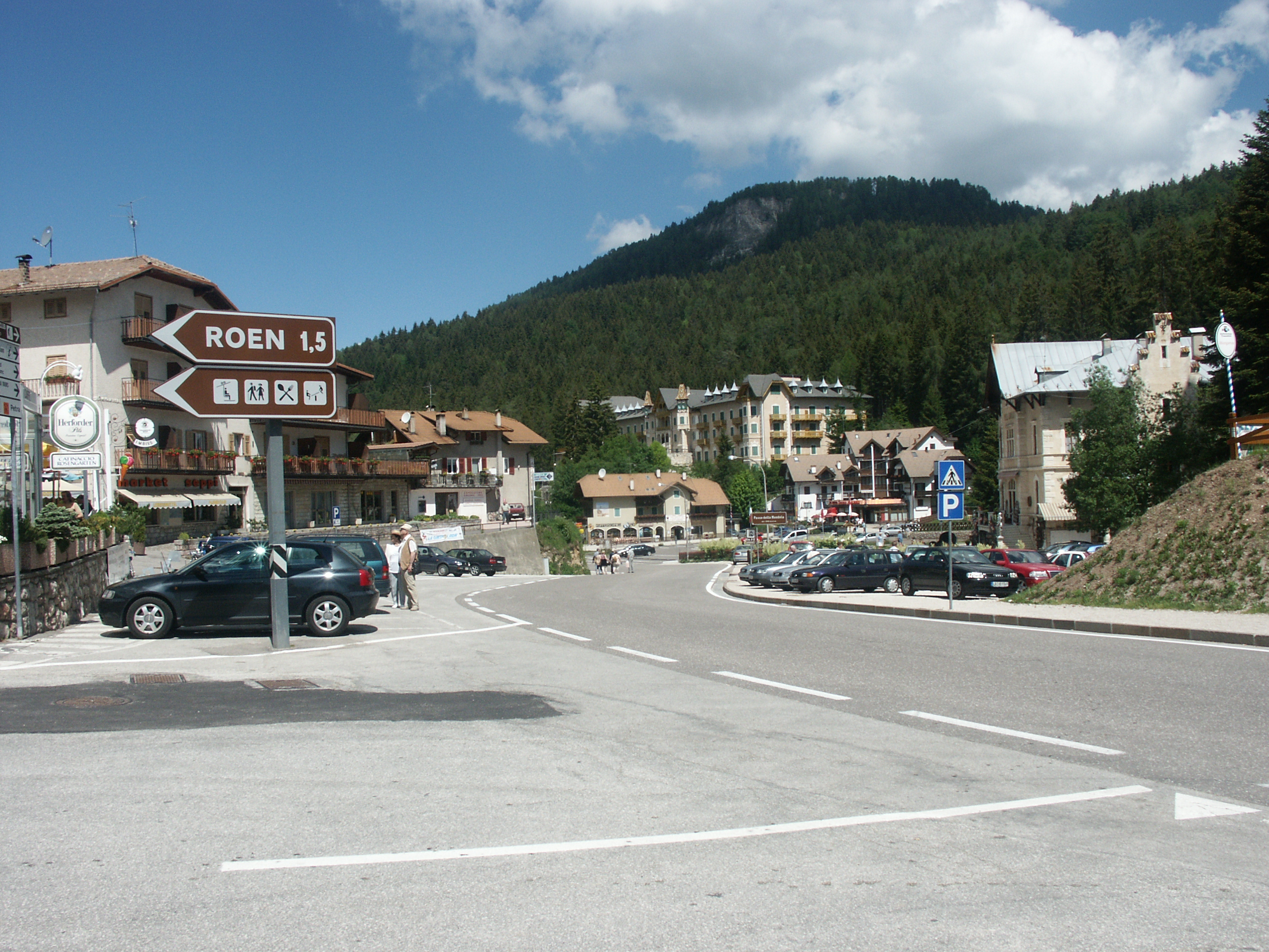 Mendelpass (it: Passo della Mendola), taken behind the peak coming from Eppan (it: Appiano)